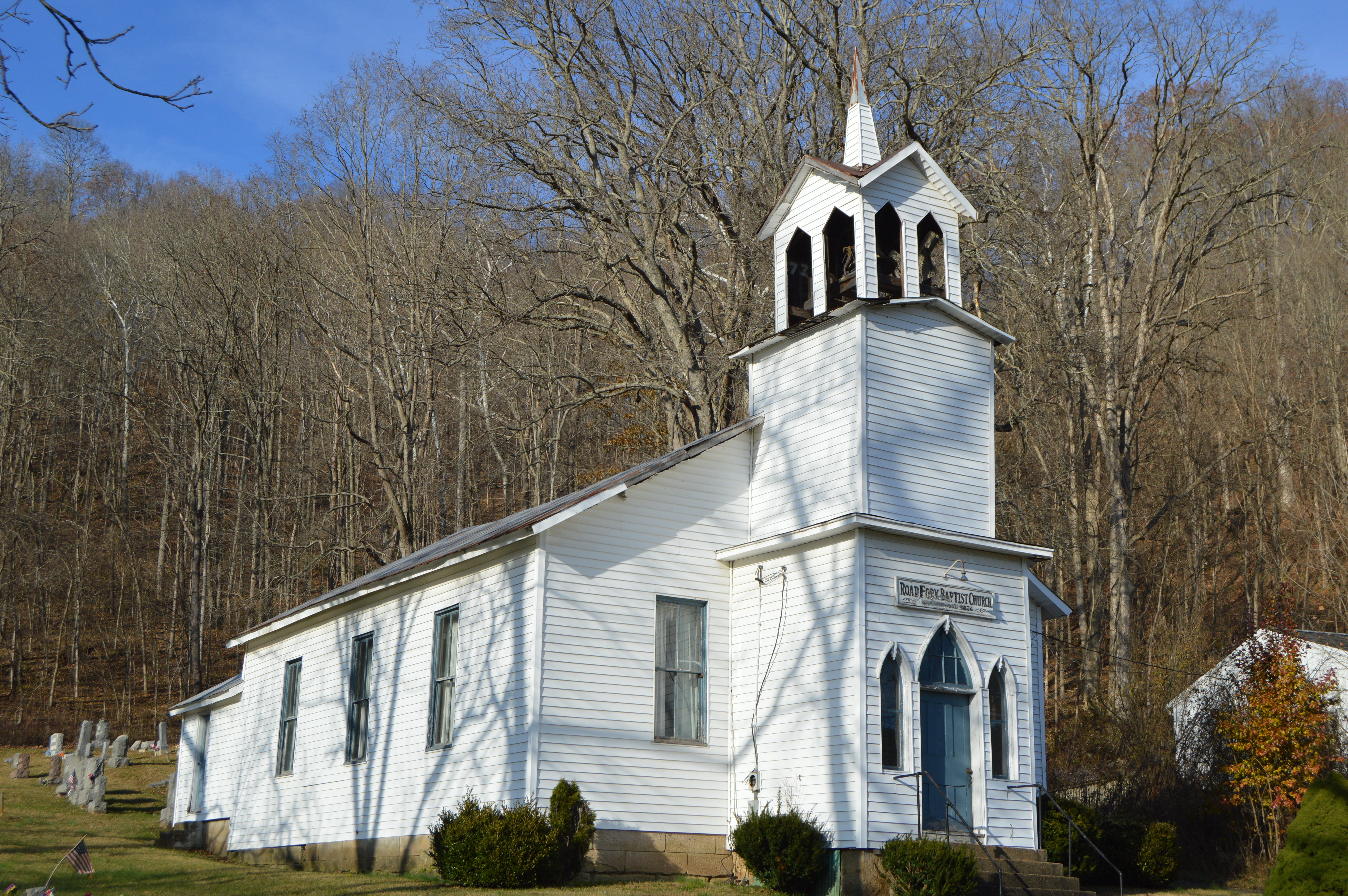 Front and southwestern side of Road Fork Baptist Church, located on Road Fork Road at the crossroads of Road Fork in Elk Township, Noble County, Ohio, United States.